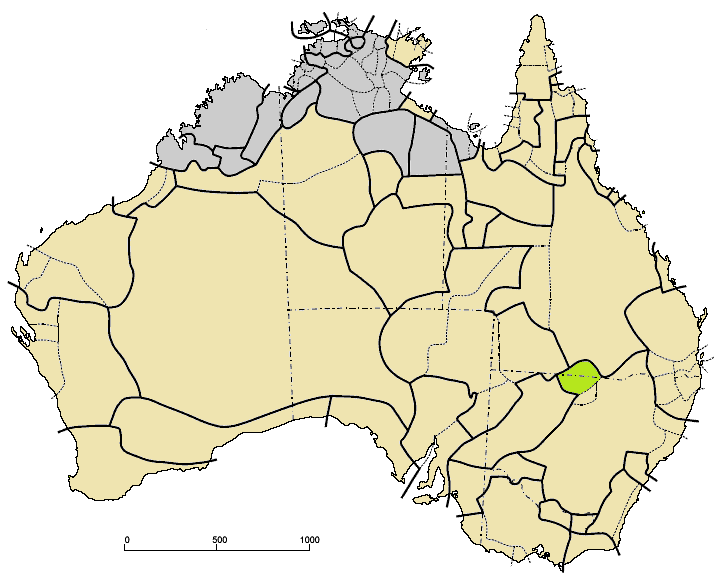 Muruwari (green) among other Pama–Nyungan languages (tan)